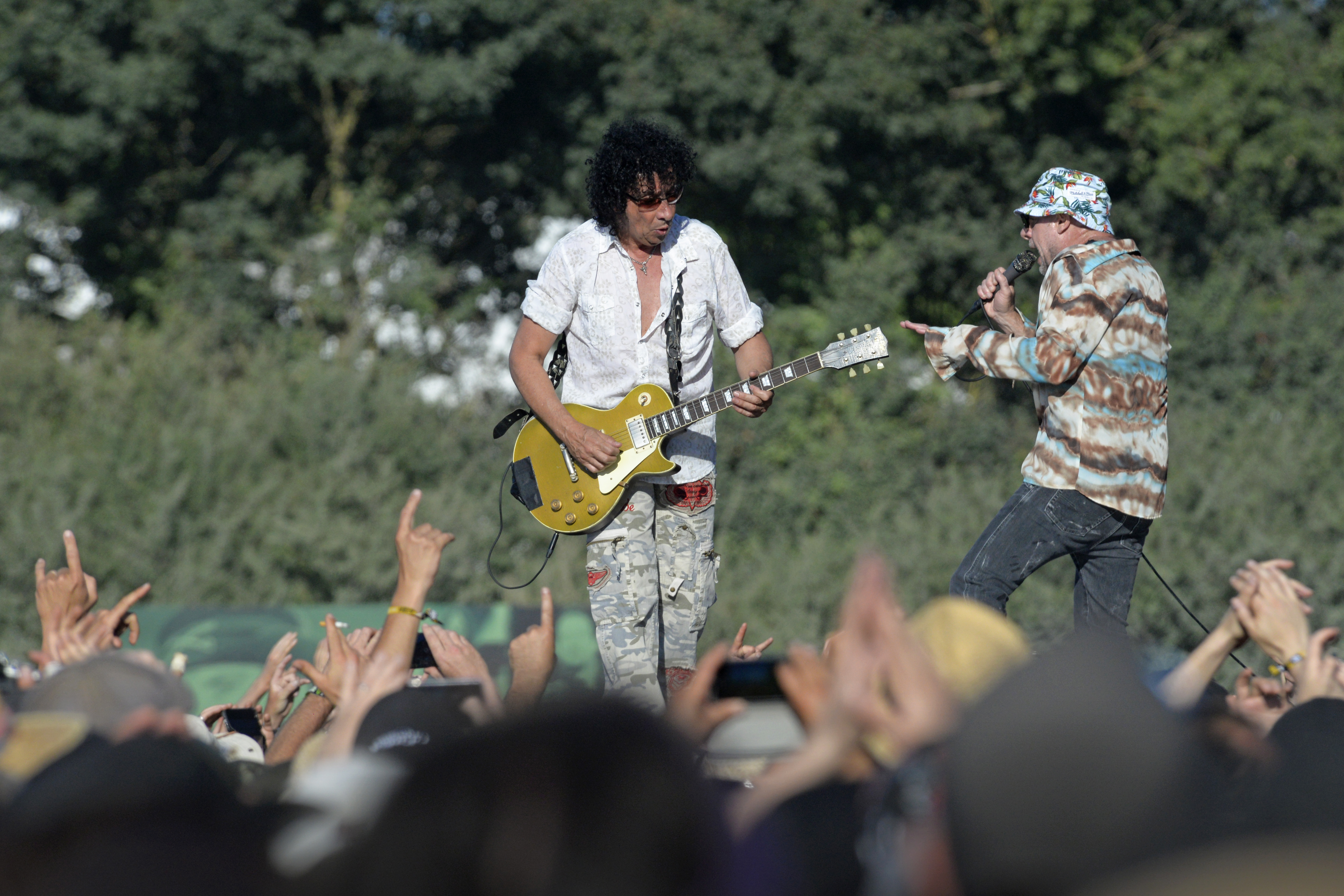 Trust show at 2017 Hellfest, France.